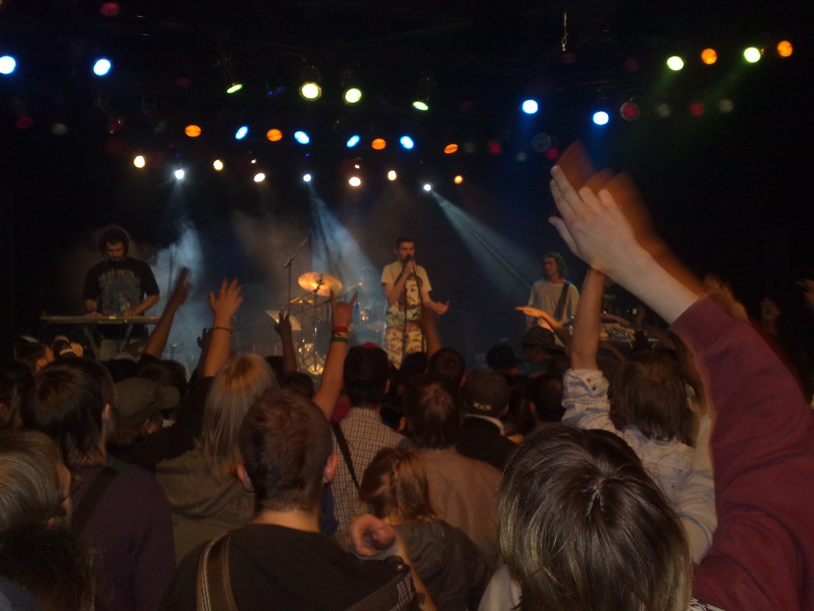 Noize MC. Noize MC gives a live show at O2TV broadcast on 8 Aug 2008, sharply commenting on South Osetian War (The war of 8/8/8) that started that day.